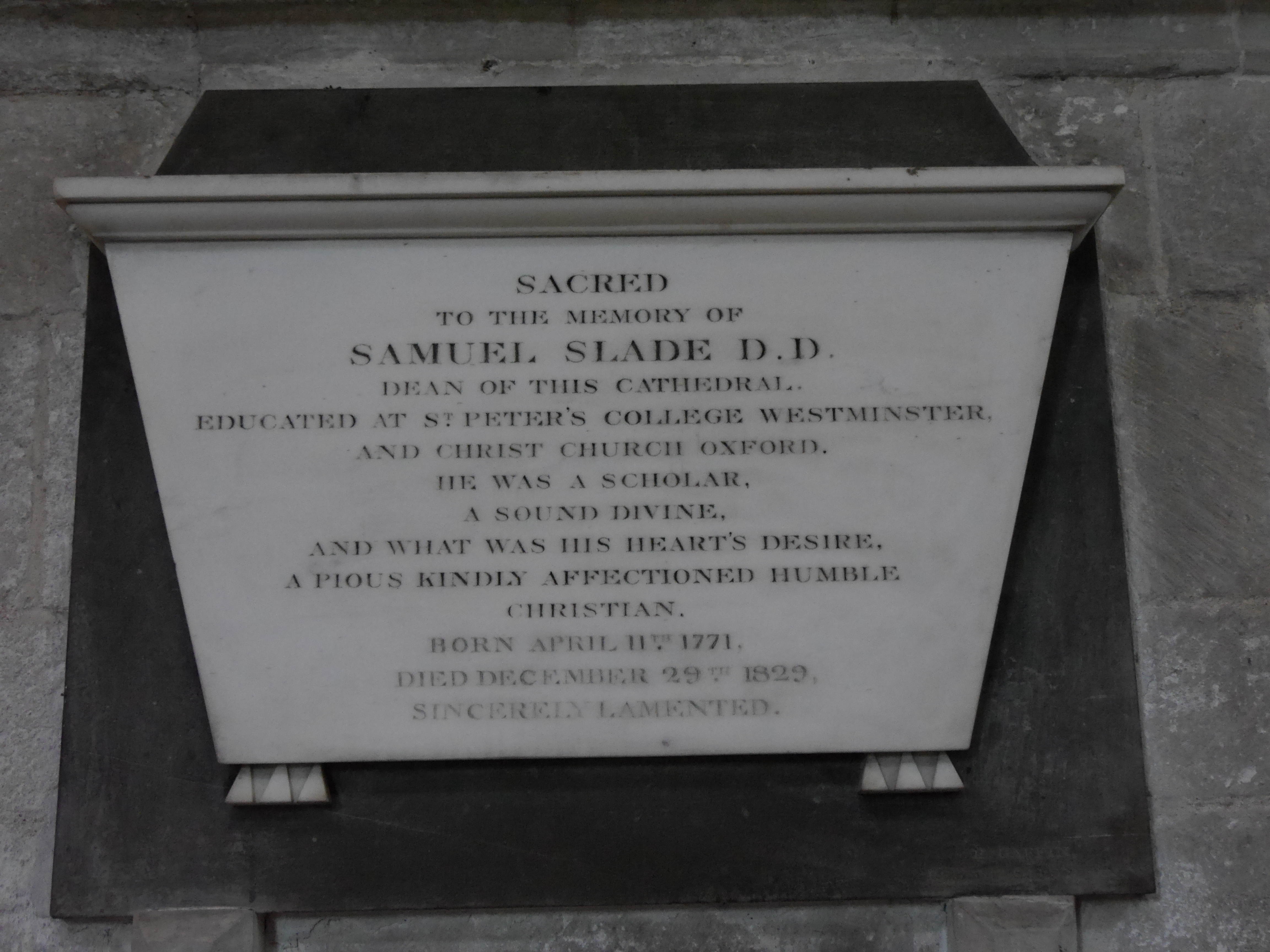 Chichester Cathedral, July 2015